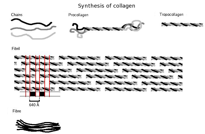 Formation of a collagen fiber from the peptide chains, by successive polymerizations.